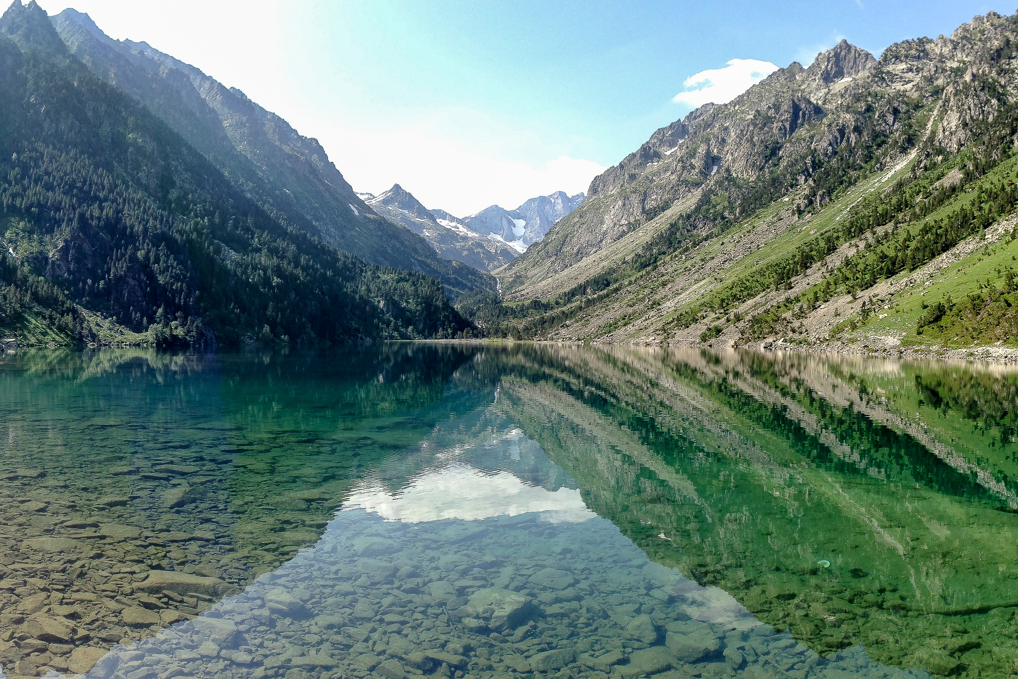 Gaube Lake in summer with Vignemale in the background